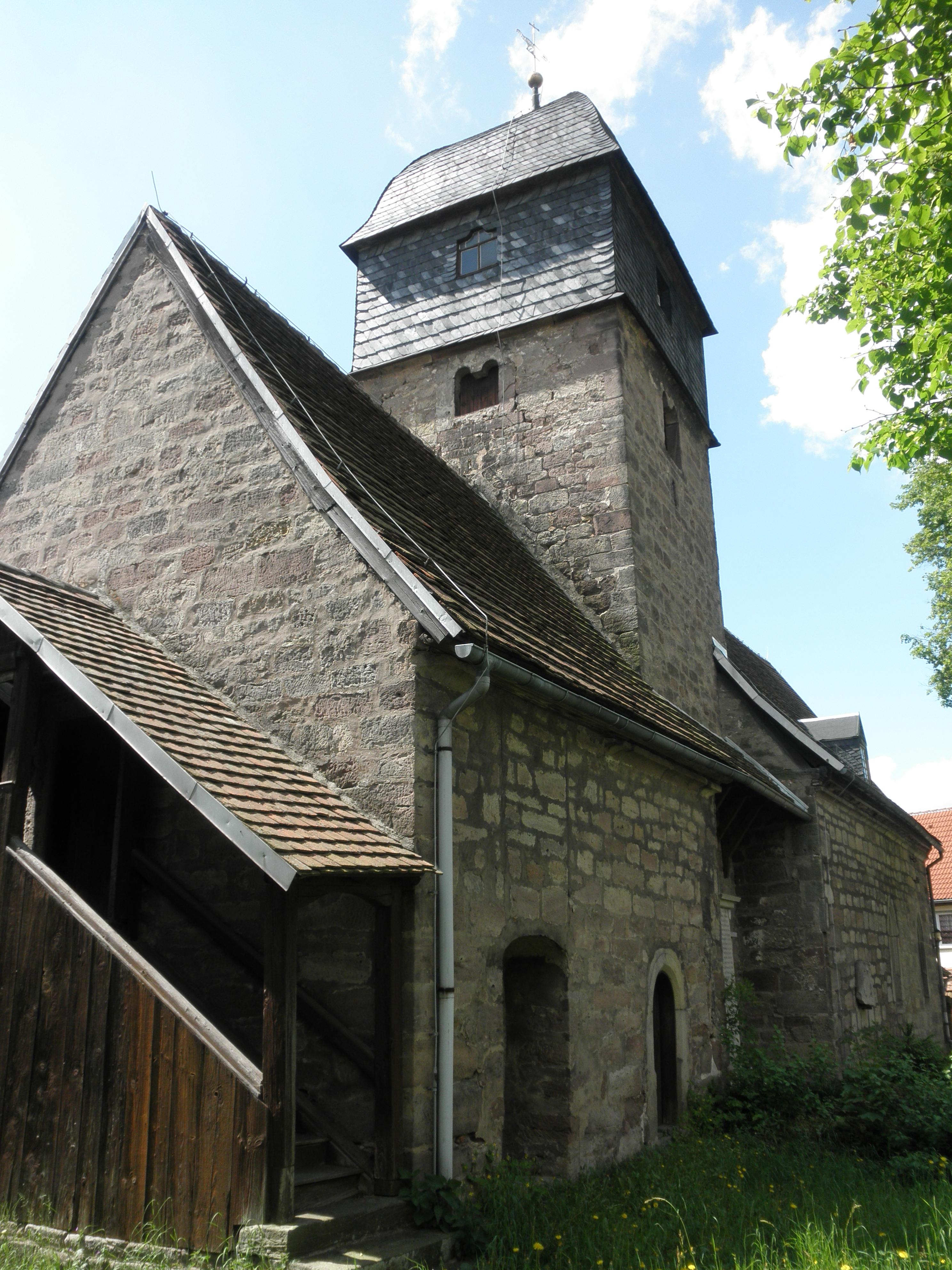 Church of Großkochberg in Thuringia